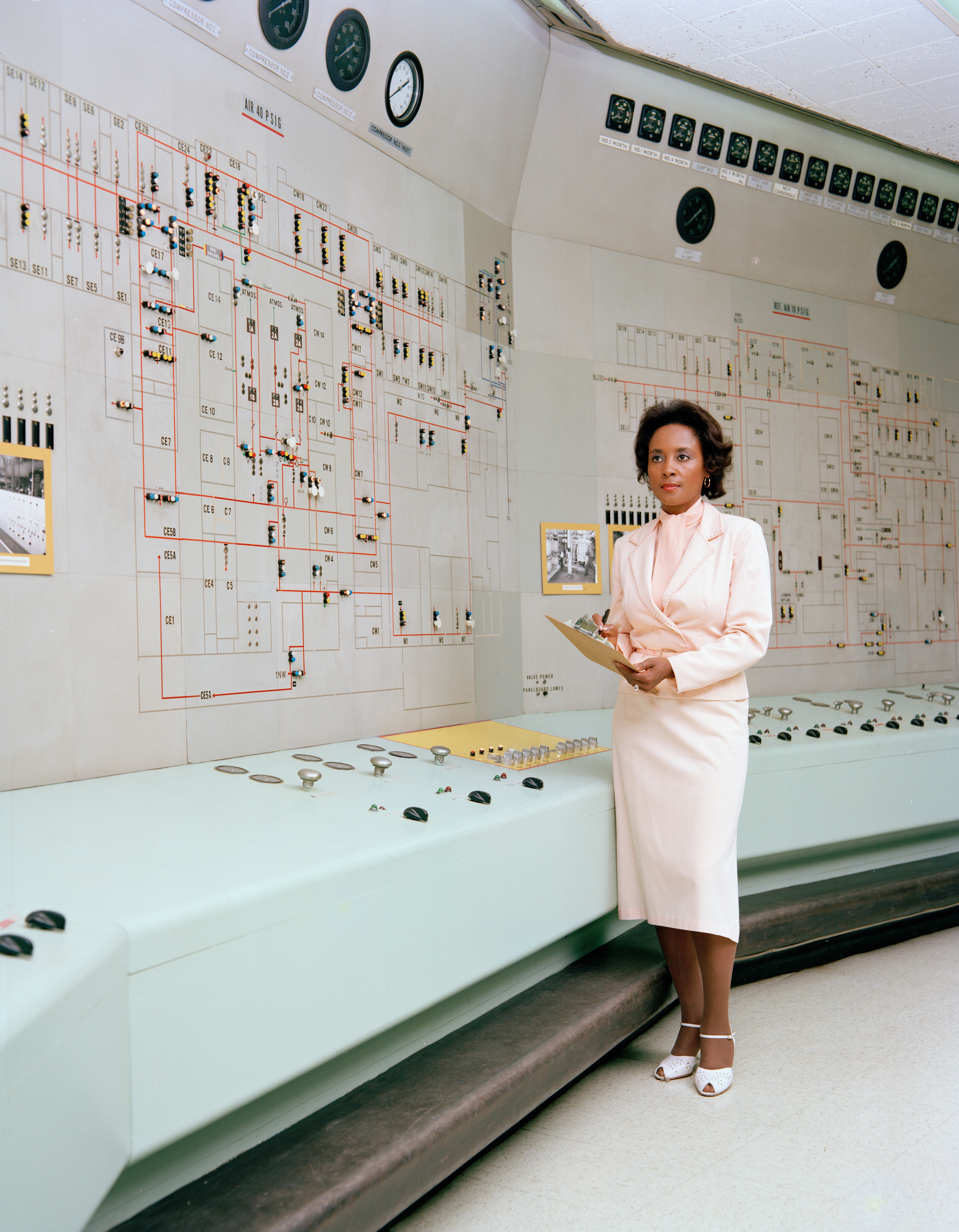 In 1955, Annie Easley began her career at NASA, then the National Advisory Committee for Aeronautics (NACA), as a human computer performing complex mathematical calculations.